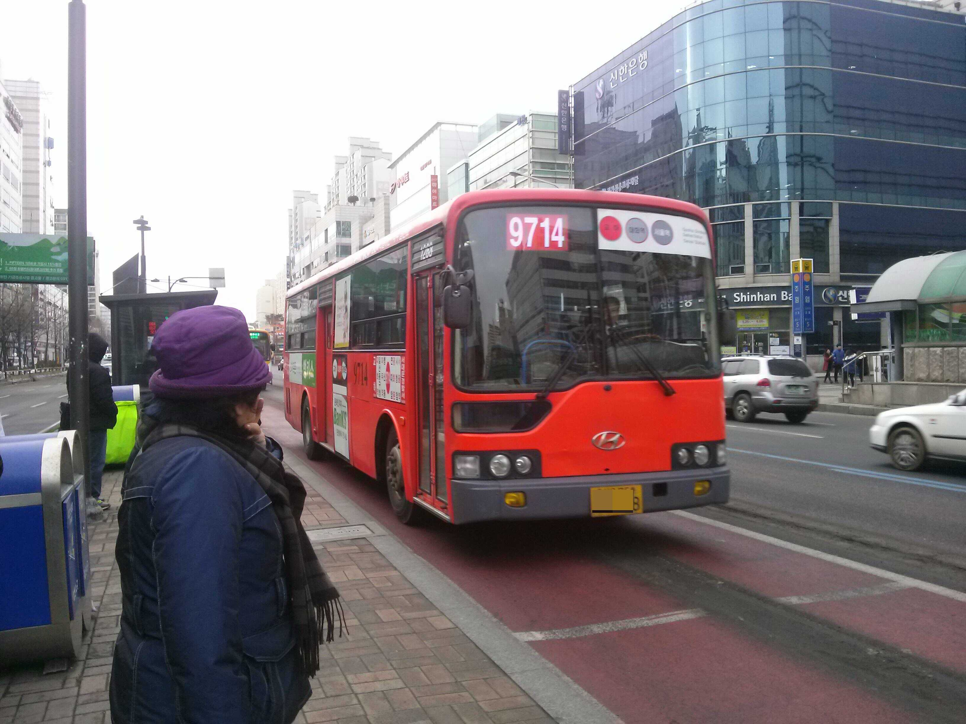 Seoul Sinsung No.9714 Hyundai NSAC for Juyeop st